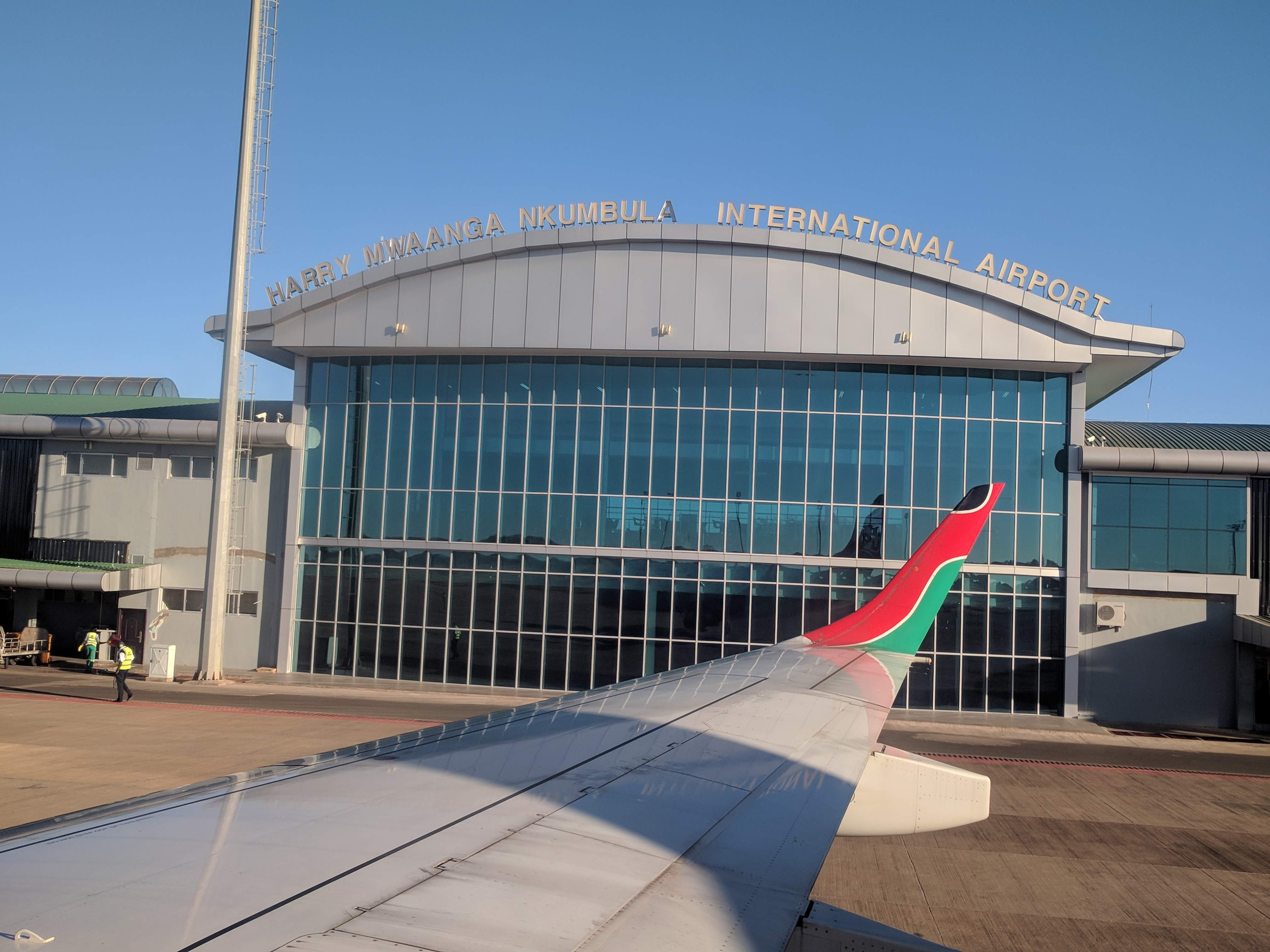 Harry Mwaaga Nkumbula International Airport in Livingstone Zambia